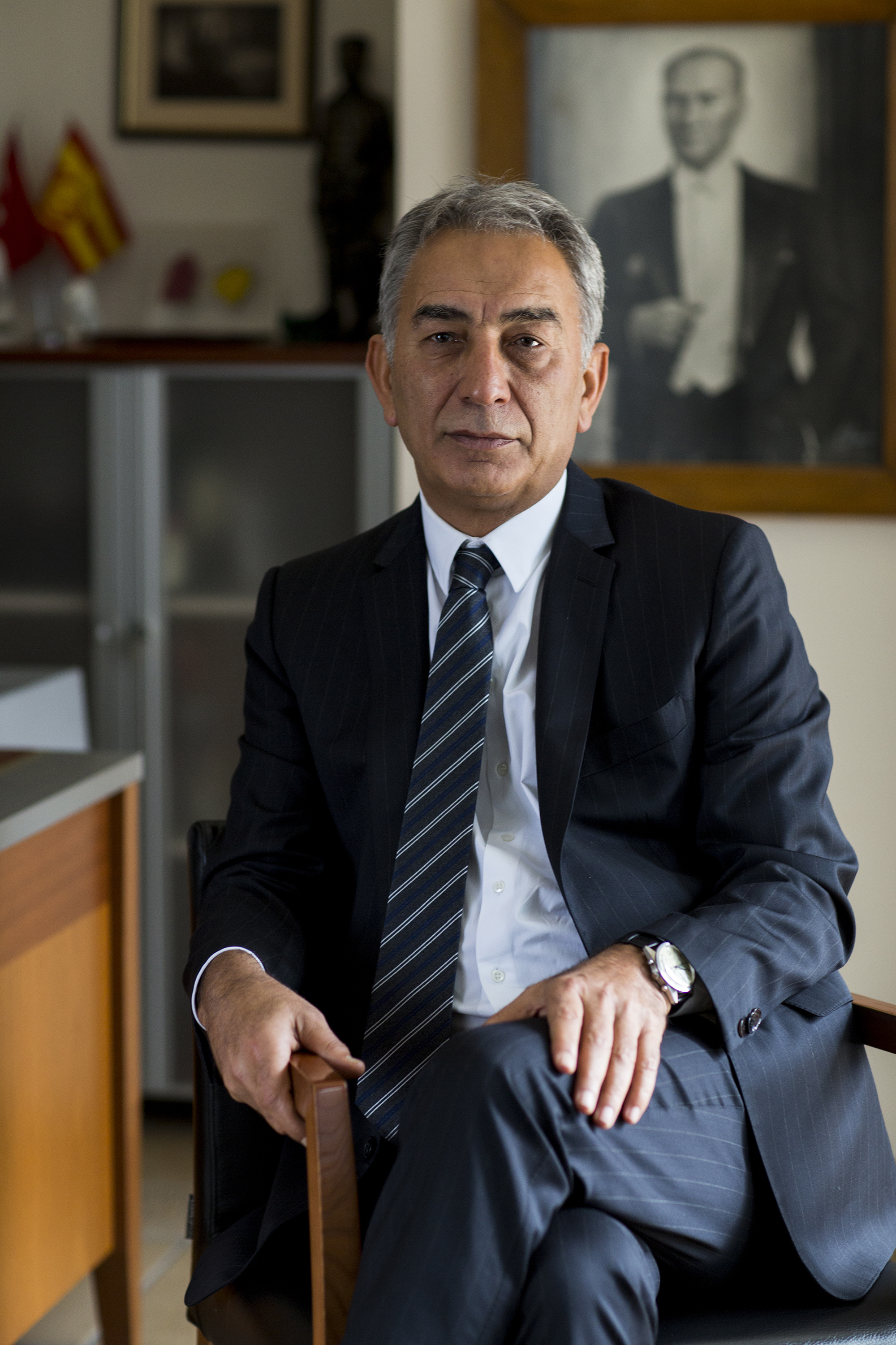 Adnan Polat 2015